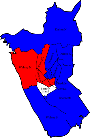 A map of the results of the 2007 Barrow-in-Furness Council election. Colour legend by wards won: Conservative party Labour party Independent